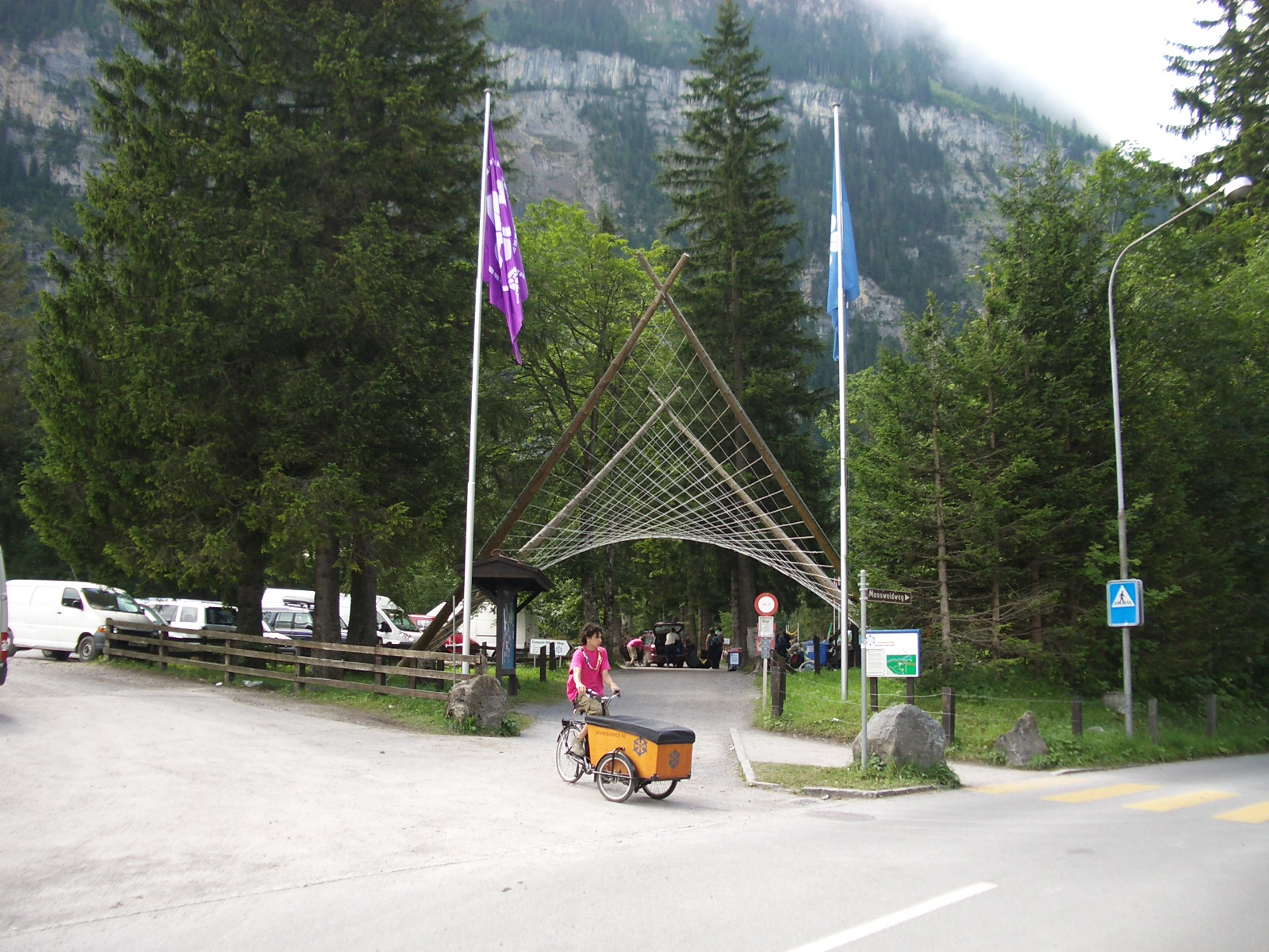 Kandersteg BE, Switzerland